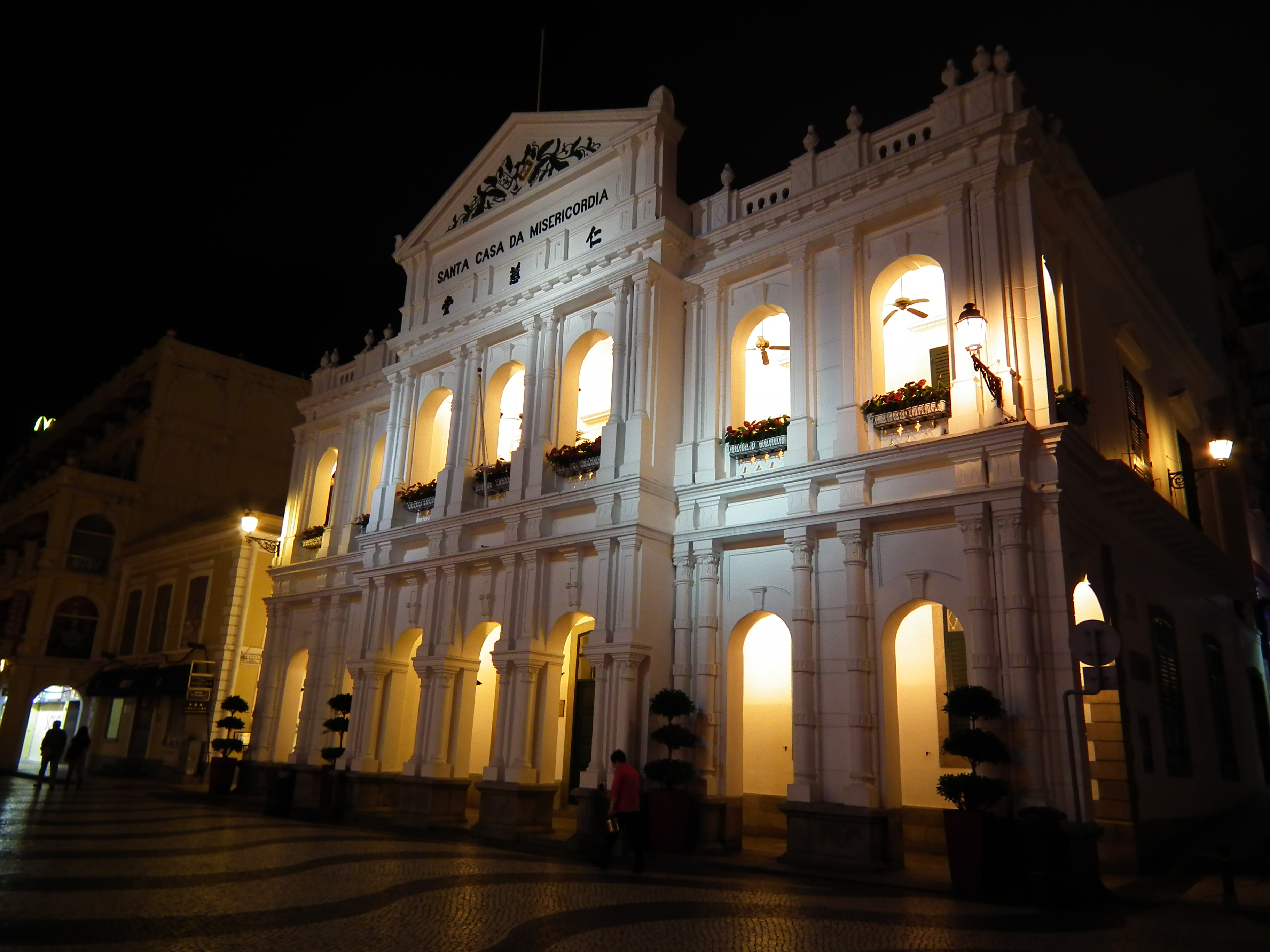 Holy House of Mercy of Macau